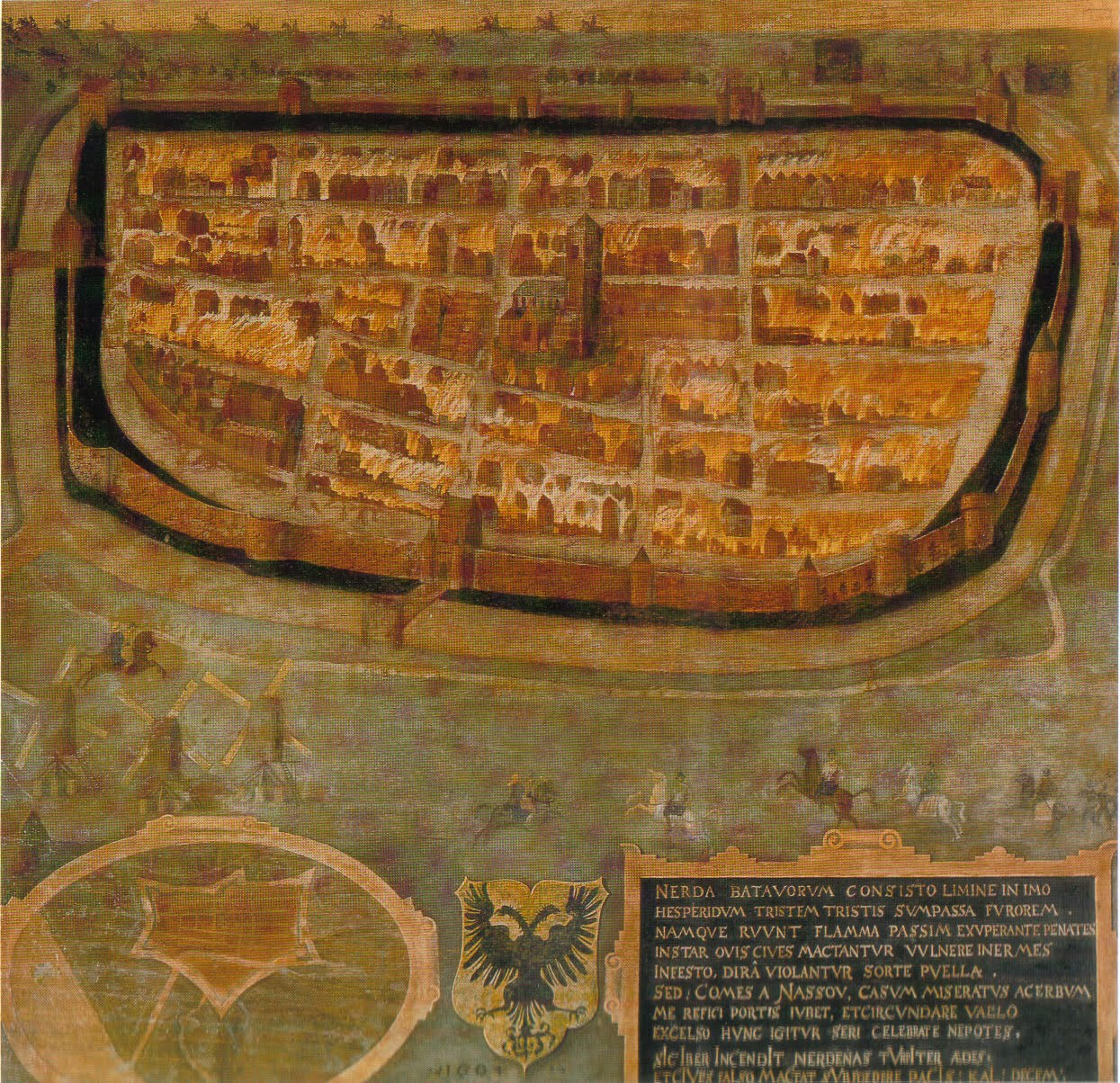 Naarden) 1572 cityfire